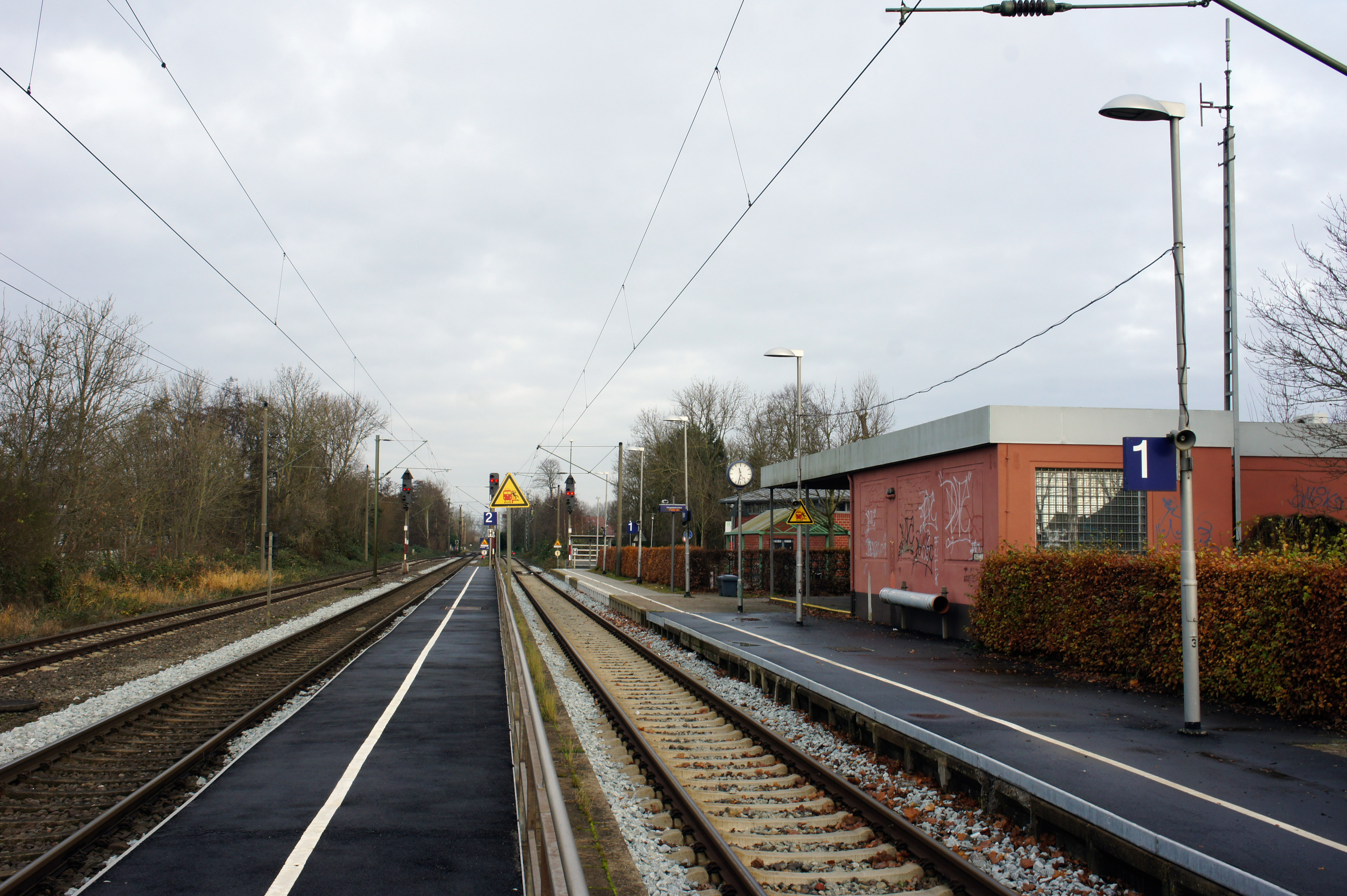 Railway station Berne, December 2014